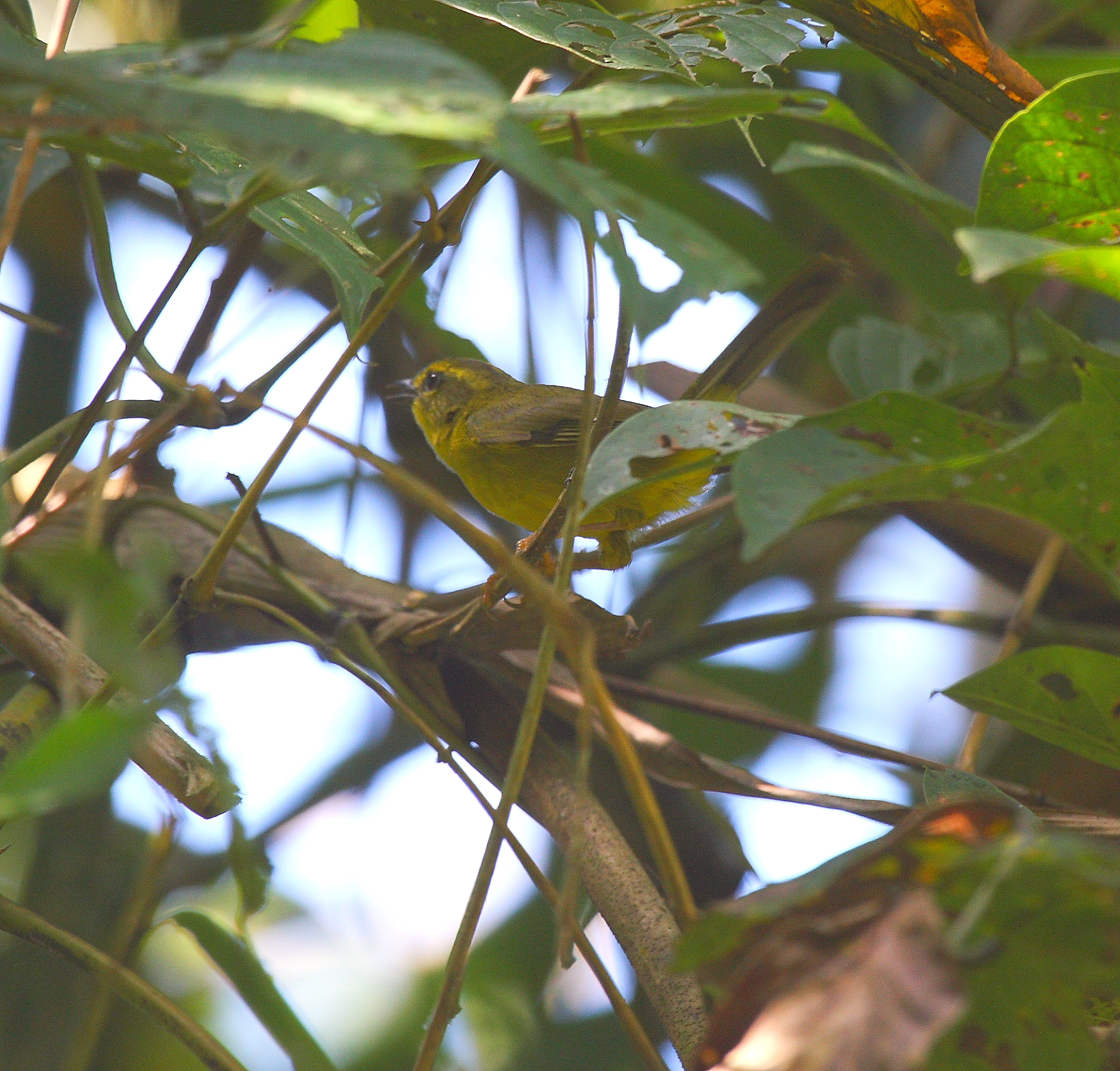 Golden-bellied Warbler (Basileuterus chrysogaster) photographed on the East slope of the Andes, along the Manu Road, below Cock of the Rock Lodge.